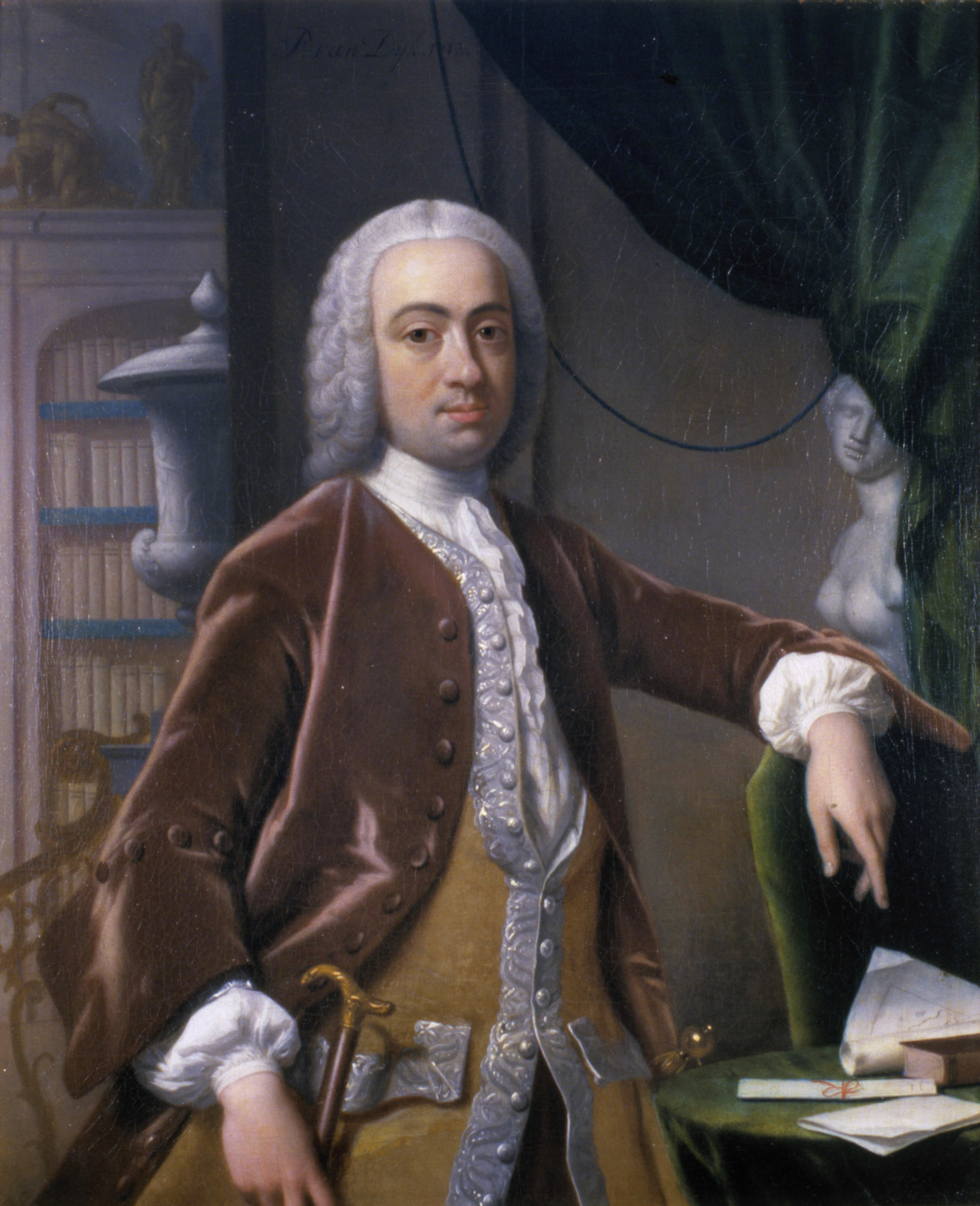 Jan Teding van Berkhout (1713-1766)